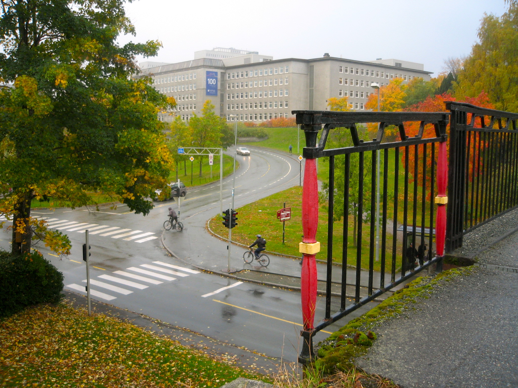 The railing of Høiskolebroen (The college bridge), accessing Campus NTNU Gløshaugen, Trondheim from the east. The bridge was constructed in 1927, designed by Sverre Pedersen. The road in the background is Høyskoleringen, leading up to campus. The grey building complex is the Varmetekniske laboratorier (=Laboratories for thermal energy research). Erected 1962. Architect: Roar Tønseth.